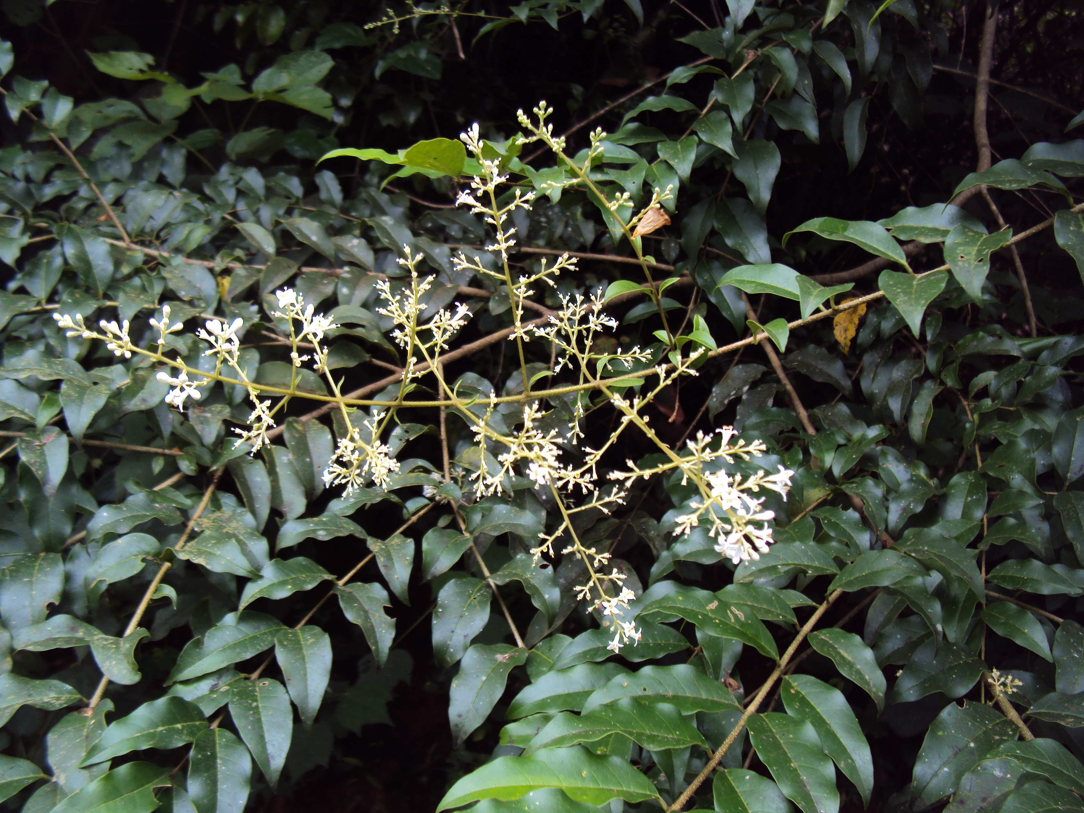 Ligustrum robustum ssp. walkeri